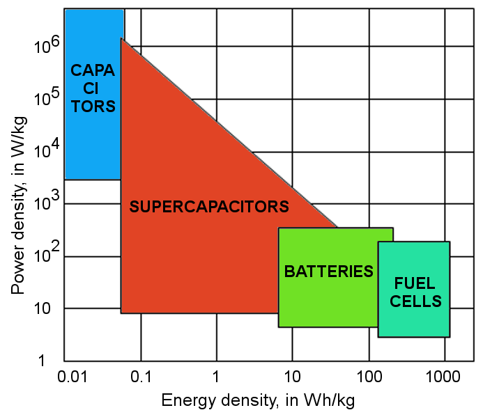 Ragone plot of power density versus energy density for different classes of energy storage/conversion systems. Supercapacitors bridge the gap between conventional dielectric capacitors on the one hand and batteries and fuel cells on the other. Redrawn from Halper M S., and Ellenbogen J C. Supercapacitors: A Brief Overview. McLean, VA: MITRE; 2006.